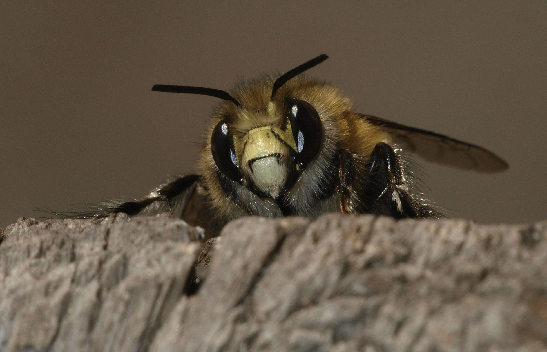 Male Anthophora plumipes